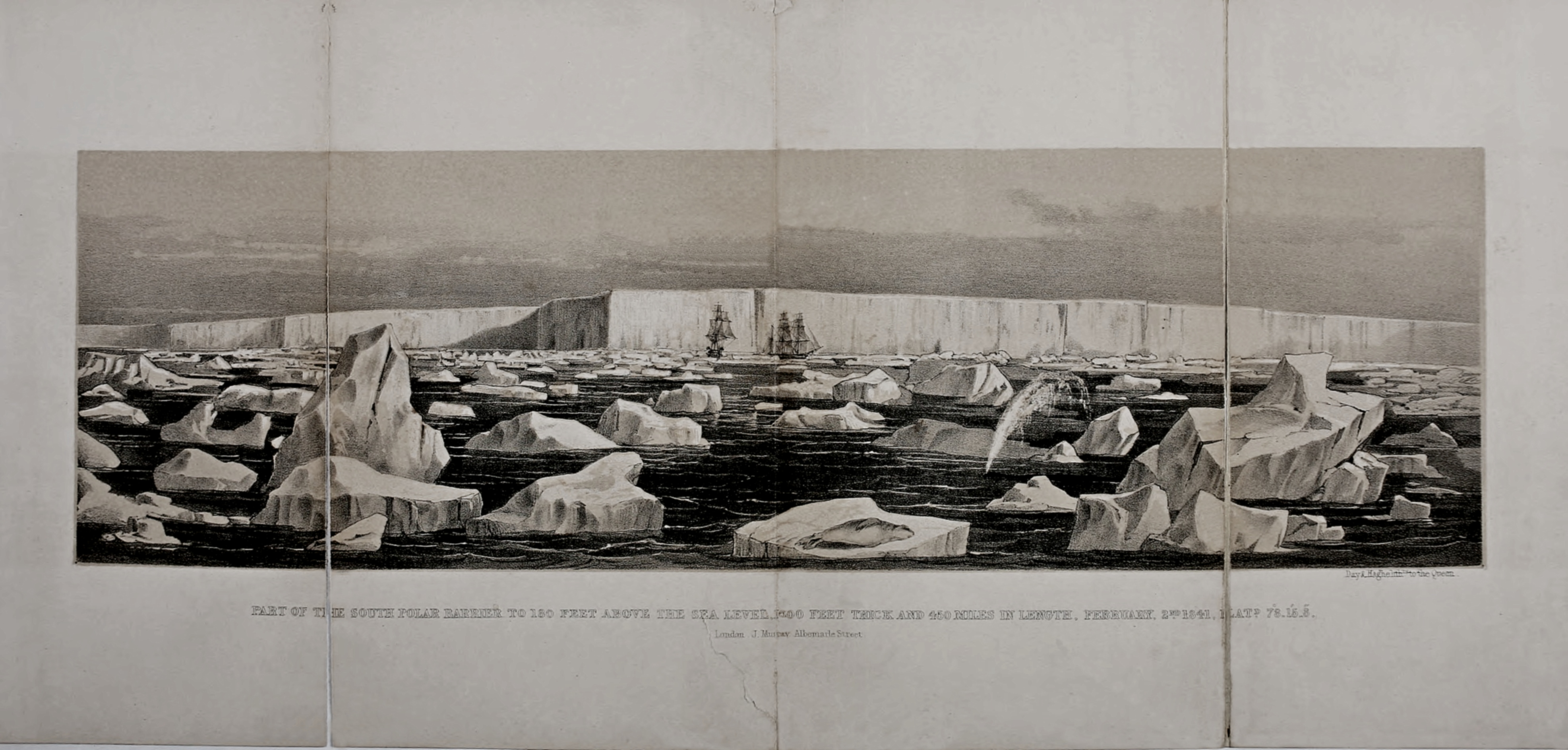 image on pages 328-9 of File:A Voyage of Discovery and Research in the Southern and Antarctic Regions Vol 1.djvu